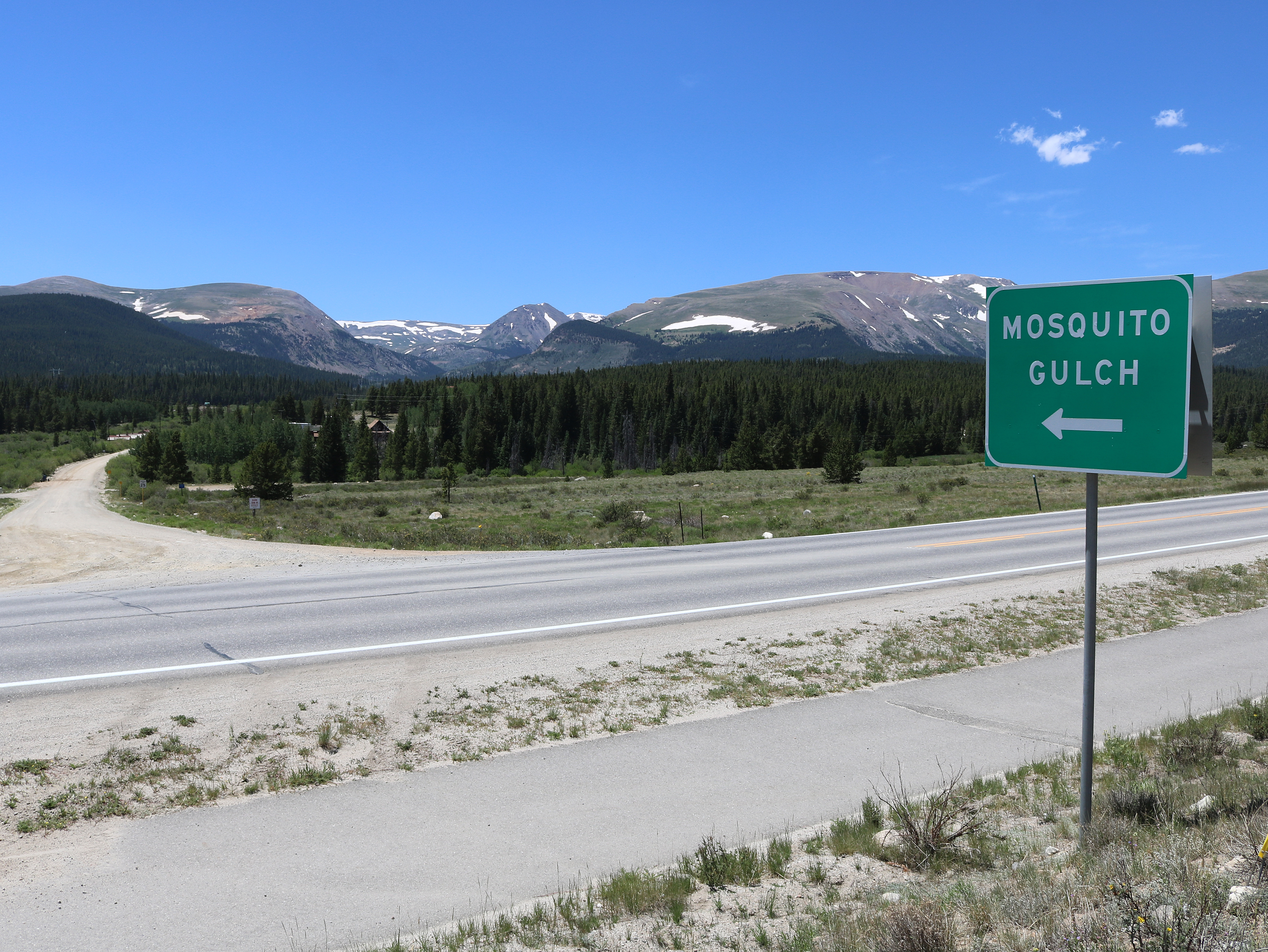 Alma Junction, Colorado, a community in Park County, south of Alma and north of Fairplay. The paved road in the picture is Colorado State Highway 9, and the dirt road is Park County Road 12. The dirt road goes to Mosquito Gulch and to Mosquito Pass. The mountains are part of the Mosquito Range.